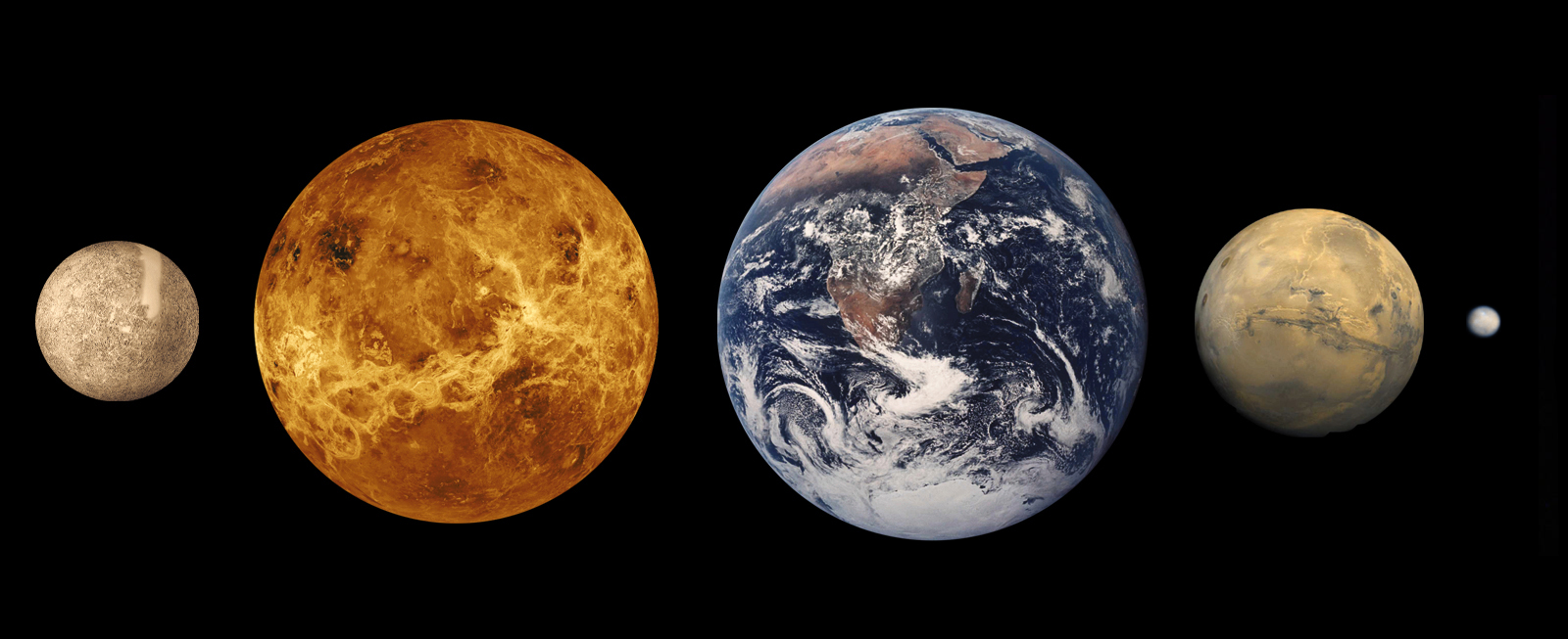 Size comparison of the four terrestrial planets Mercury, Venus, Earth and Mars and the terrestrial dwarf planet Ceres.